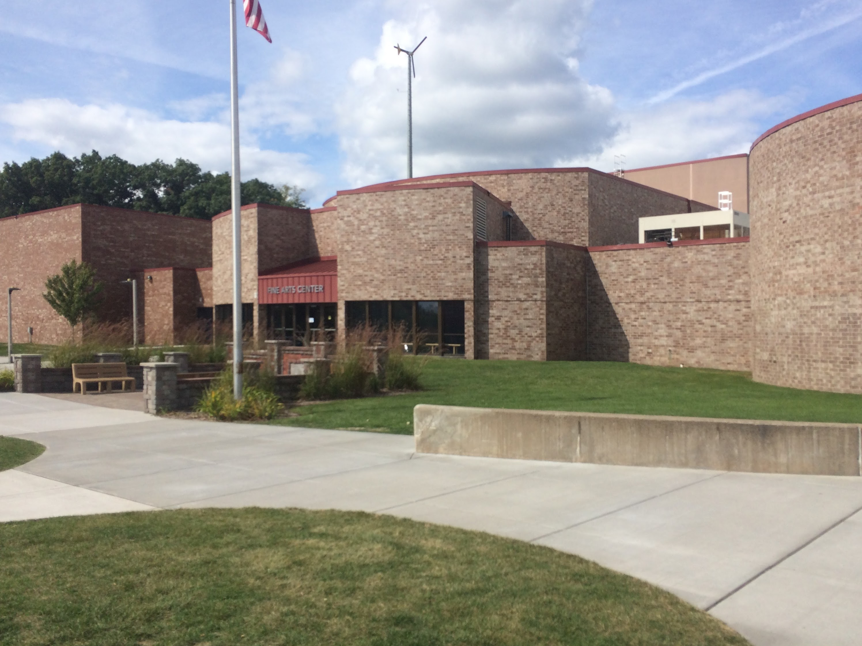 The Chautauqua Fine Arts Center in Minnesota